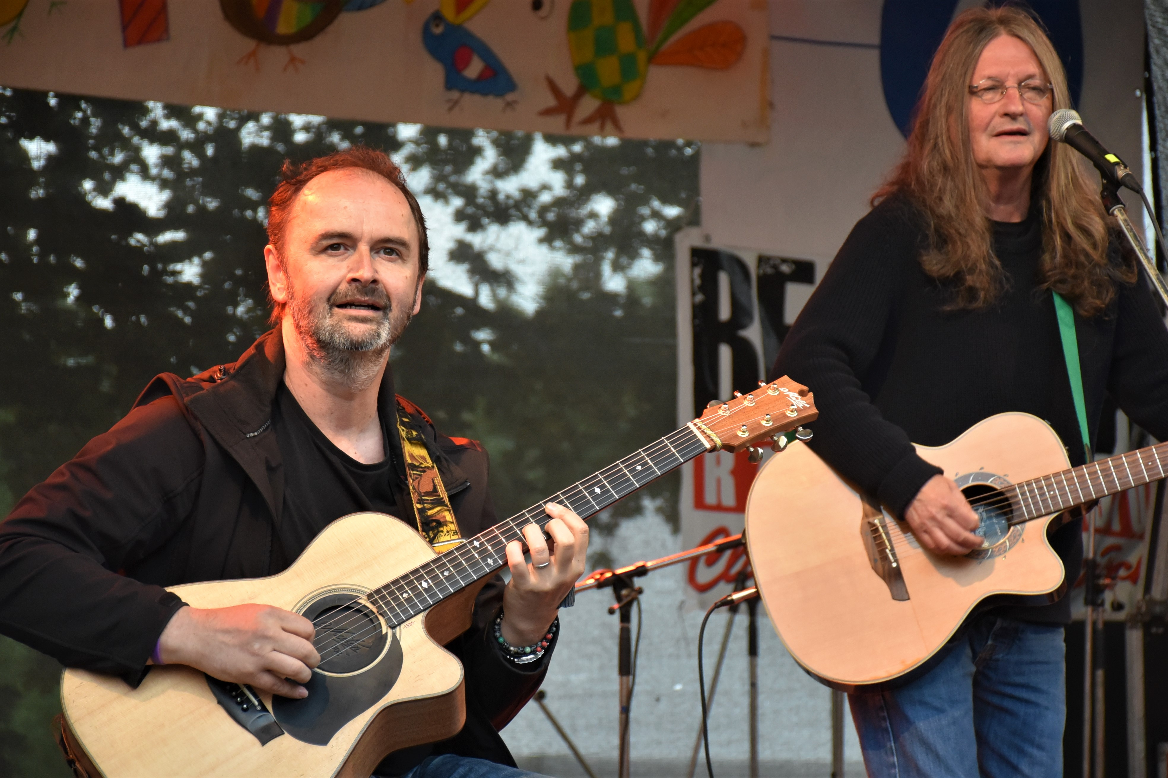 from left: Norbi Kovács and Ivan Hlas, Czech musicians